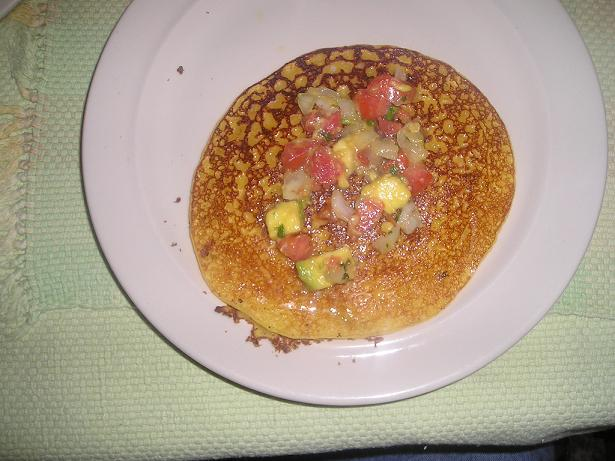 Cachapa, typical meal in Venezuela